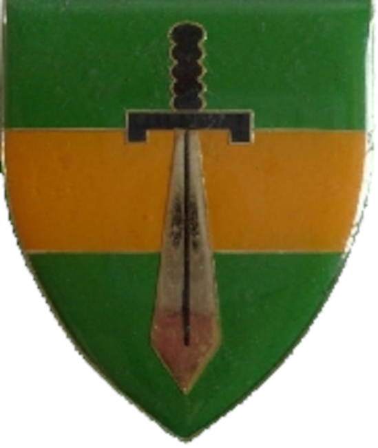 SADF era Benoni Commando emblem